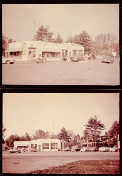 It is a picture of a small village that was named Humber Summit originated from in the 1930's the post master Vivan and Garnet Evans